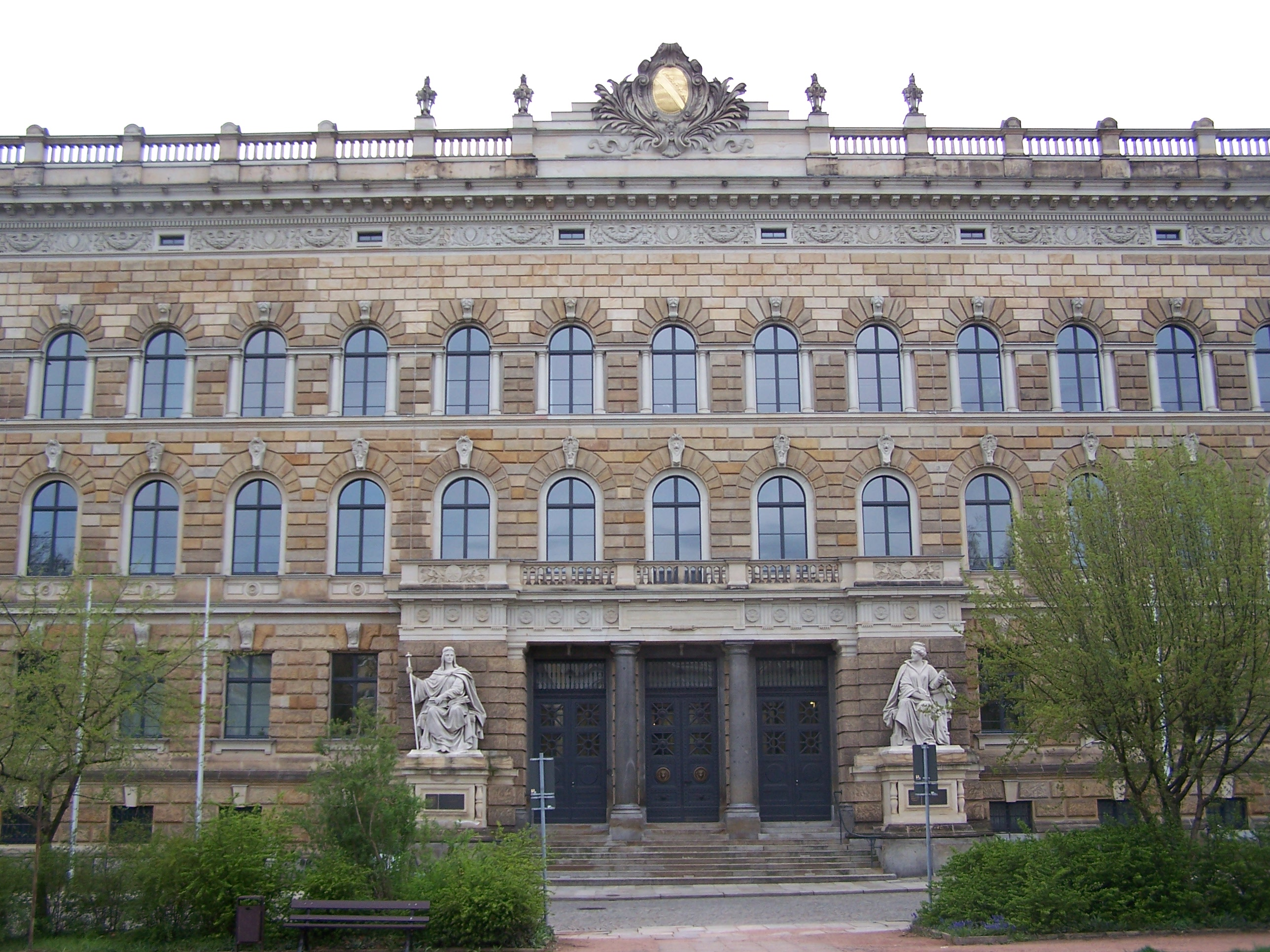 Main entrance to the historic district court in Dresden; architect Arwed Roßbach. Today used as regional court in Dresden. Statues by Johannes Schilling